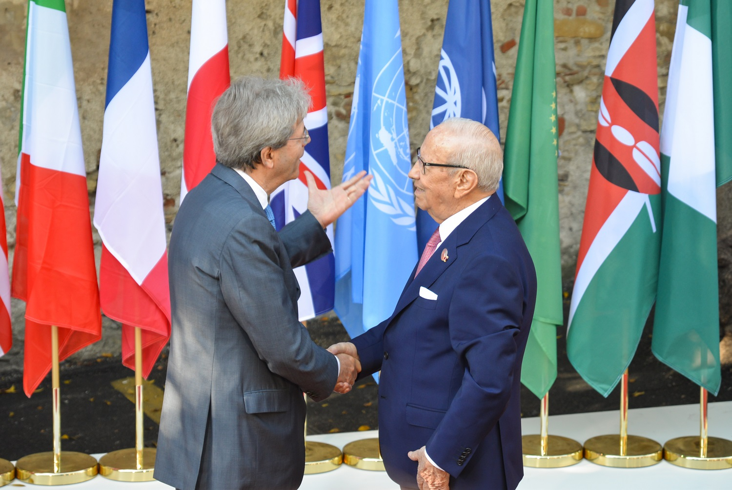 Handshake of Paolo Gentiloni and Beji Caid Essebsi during the 43rd G7 summit